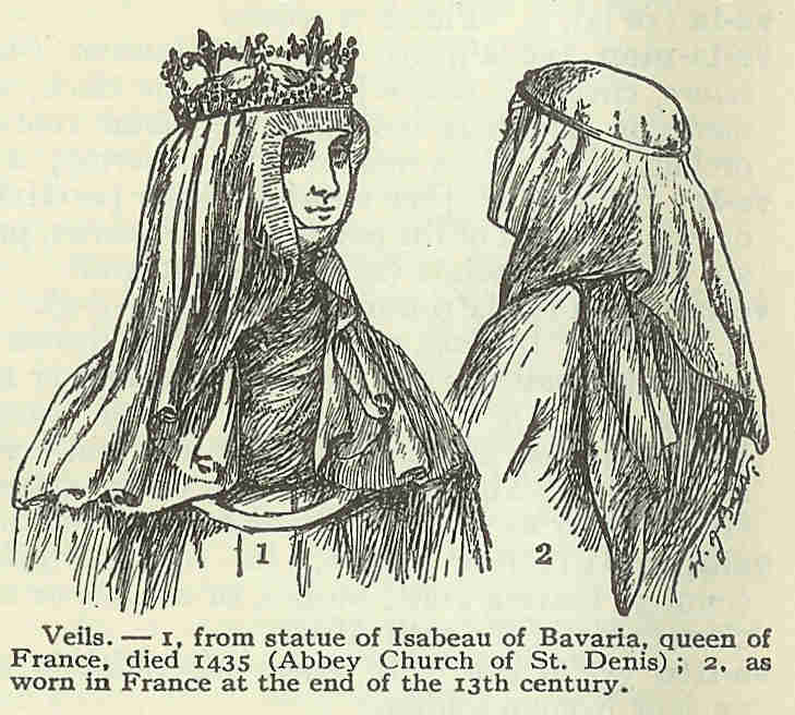 Depicts 13th Century veiling from statue of Isabeau of Bavaria, queen of France, died 1435.